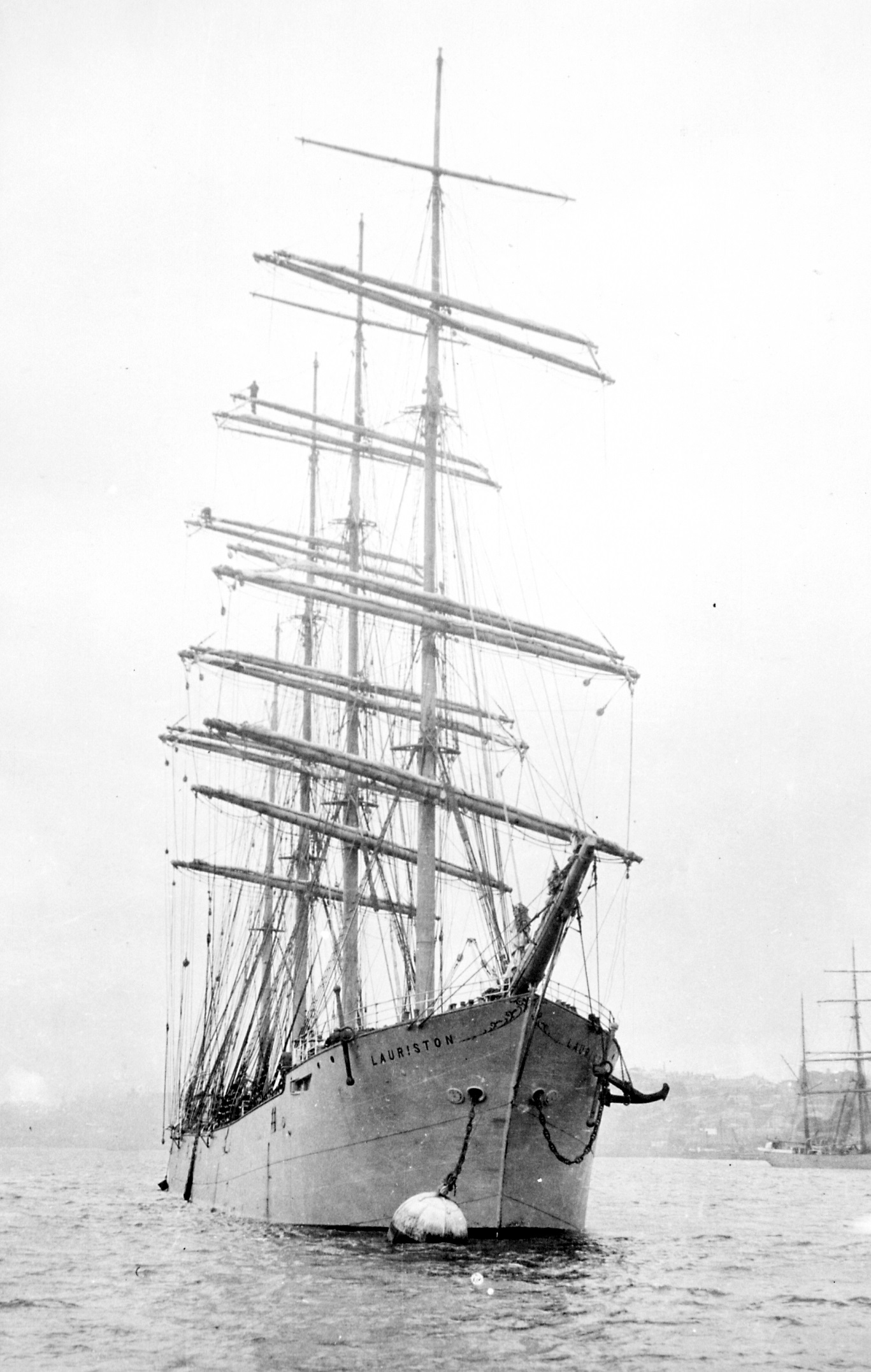 Original caption: “LAURISTON. Liverpool. 2245 tons. Built Belfast. 1892. (Steel) Four masted full-rigged ship an anchor in port. The ship was destroyed by German bomber in 1944. Photograph: gelatin silver; 18.8 × 12.3 cm (7.4 × 4.8 in)”